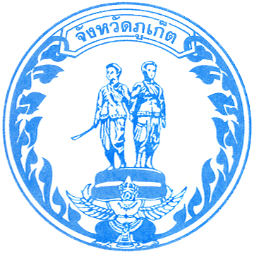 Provincial seal of Phuket province.